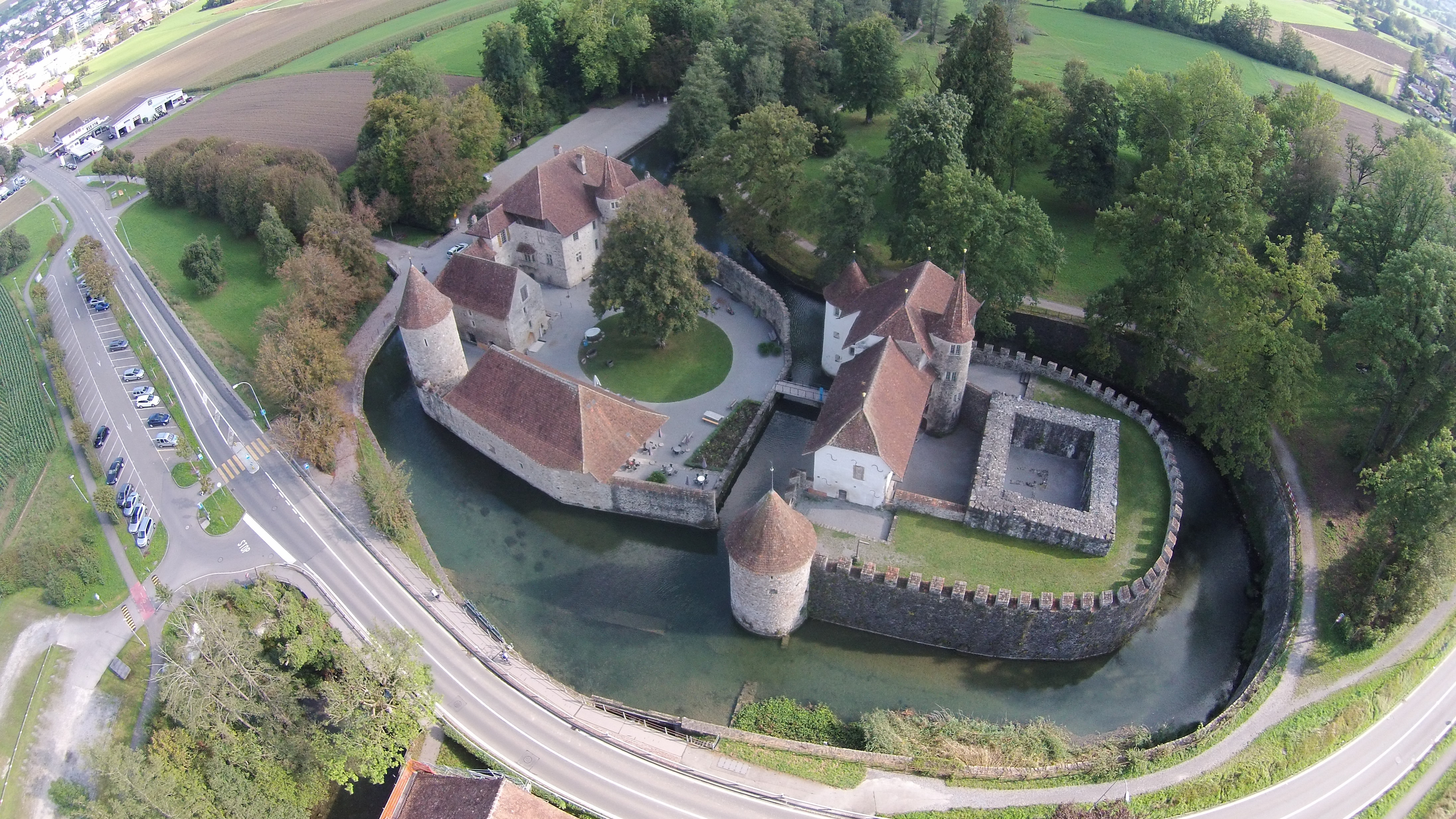 Hallwyl Castle, Seengen